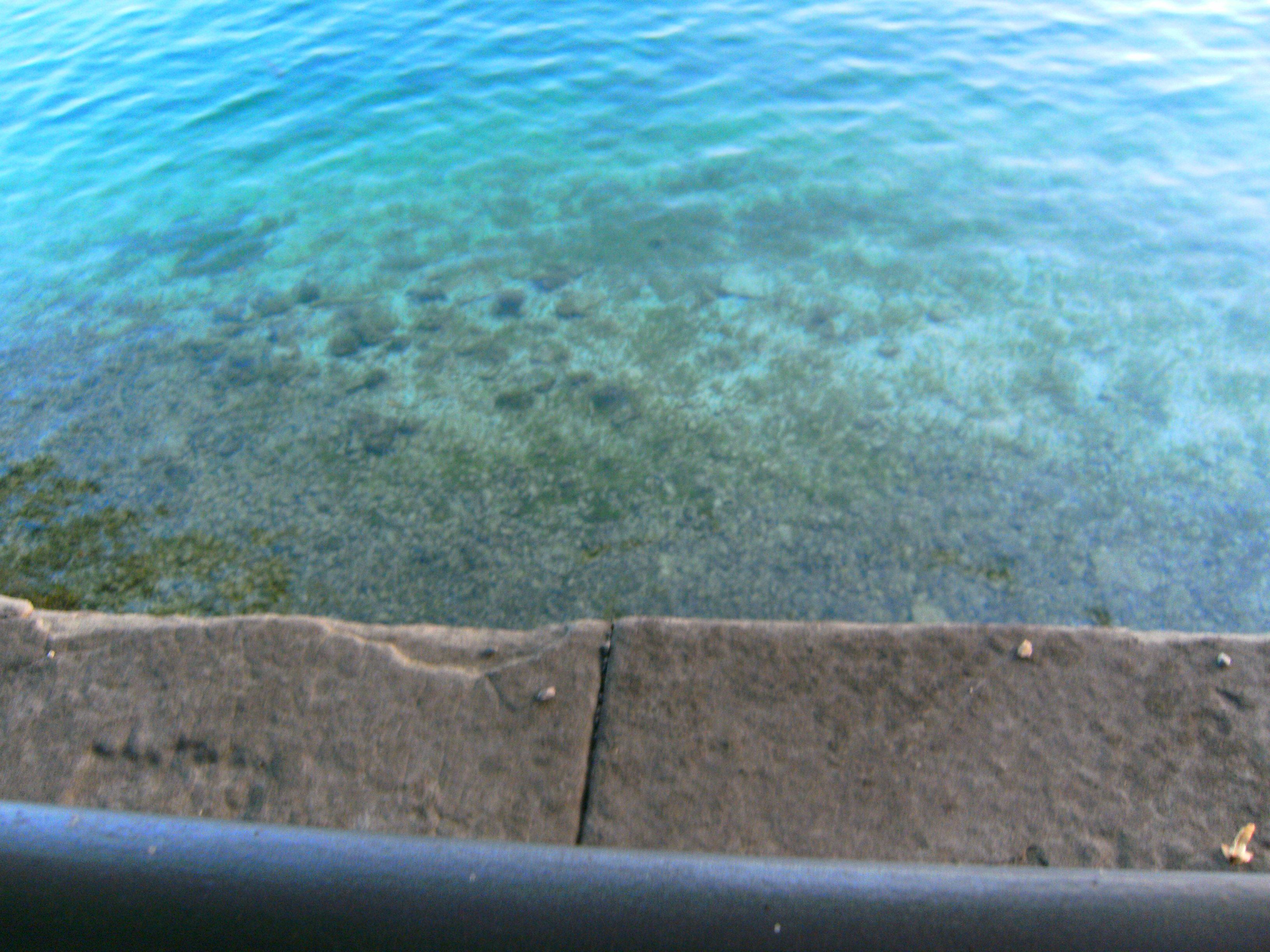 Konstanz, Germany, Seerhein beim Konstanzer Wirtshaus. Current of Seerhein.